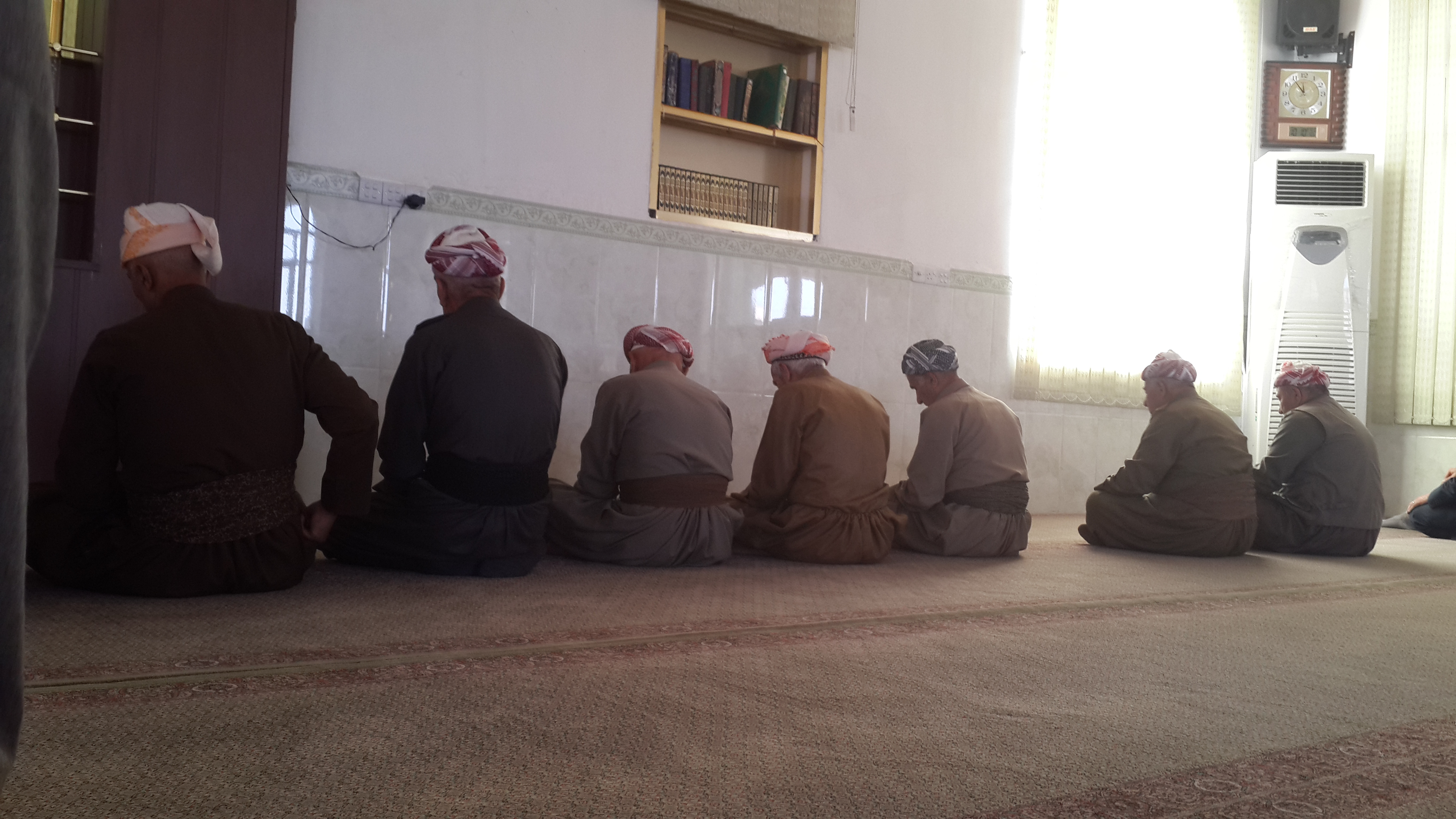 Kurdish Old Man's In Mosque